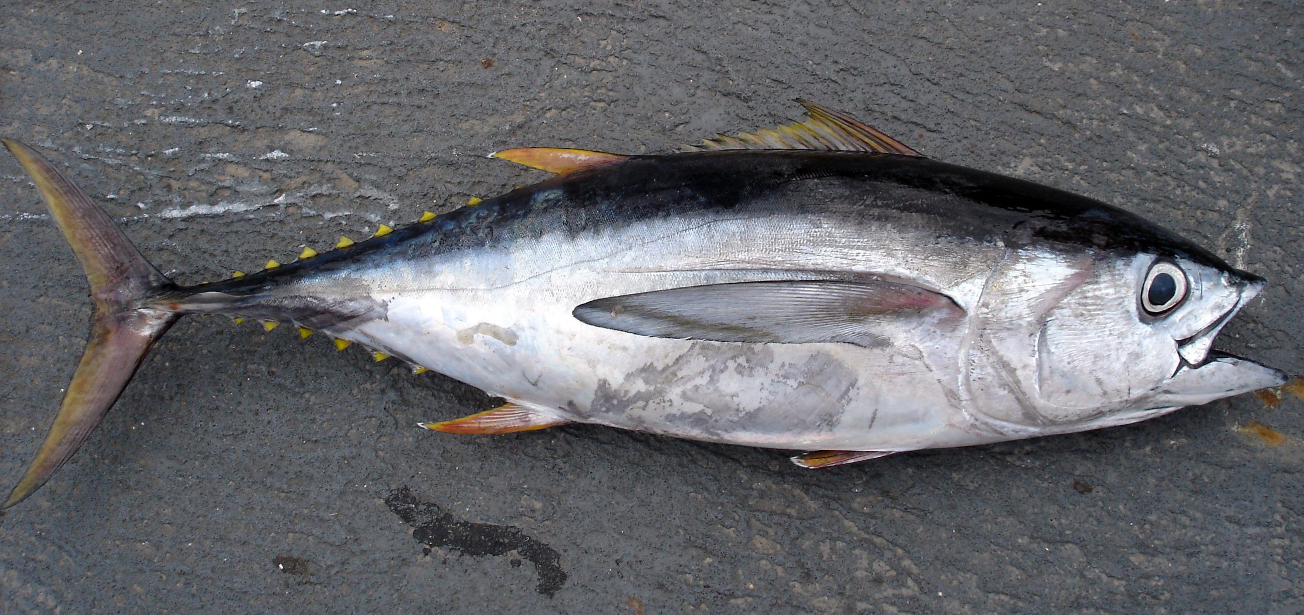 Thunnus_obesus Longline fishing research on the NOAA Ship OSCAR ELTON SETTE. Bigeye tuna.